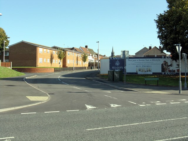 Not just a home, but a lifestyle It says so on the poster, so it must be true. Musn't it? Mansion Gate development, Meeting Street, Wednesbury.